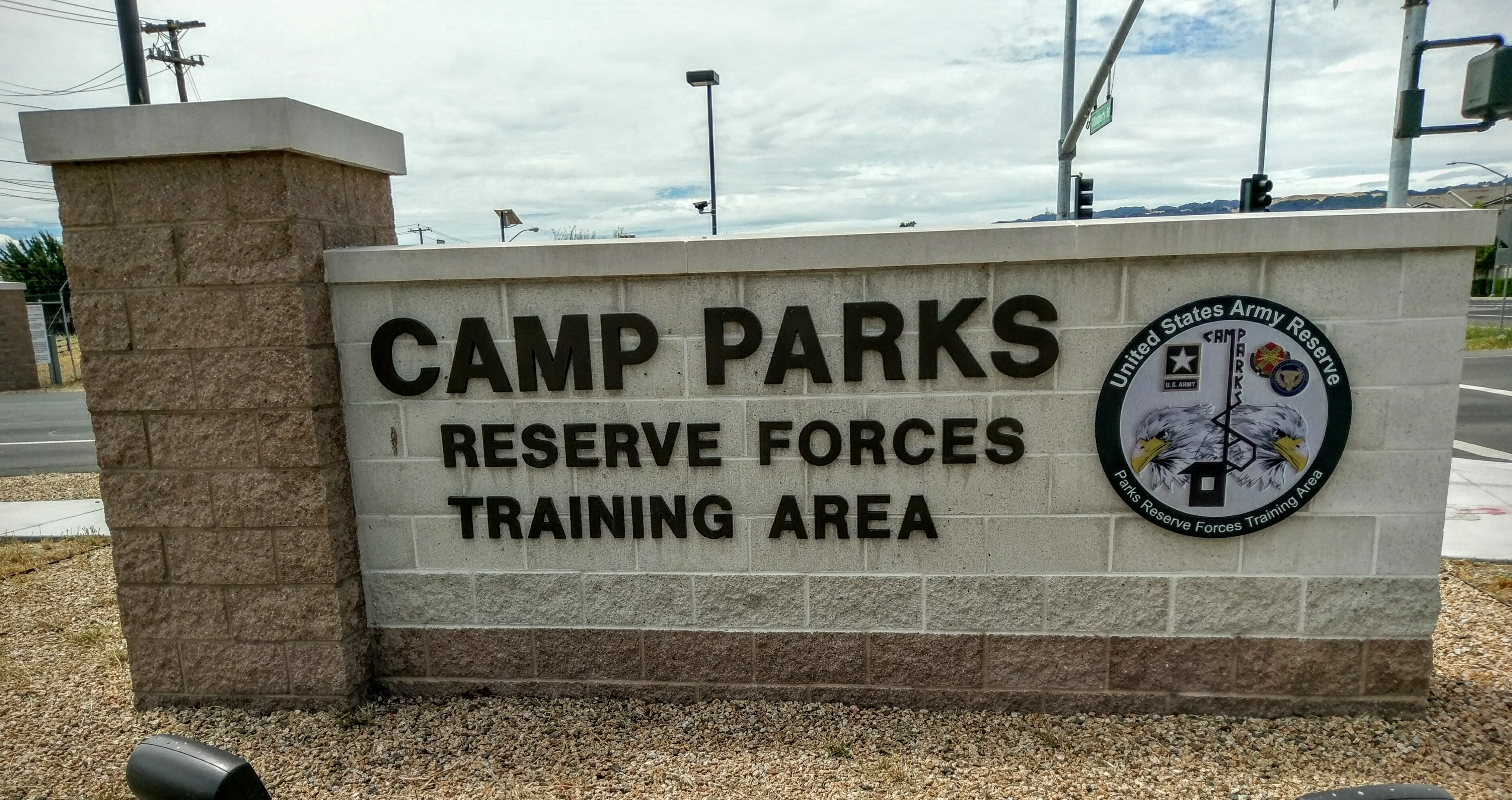 The sign at the entrance to Camp Parks in Dublin, California. Photo by Jim Heaphy.